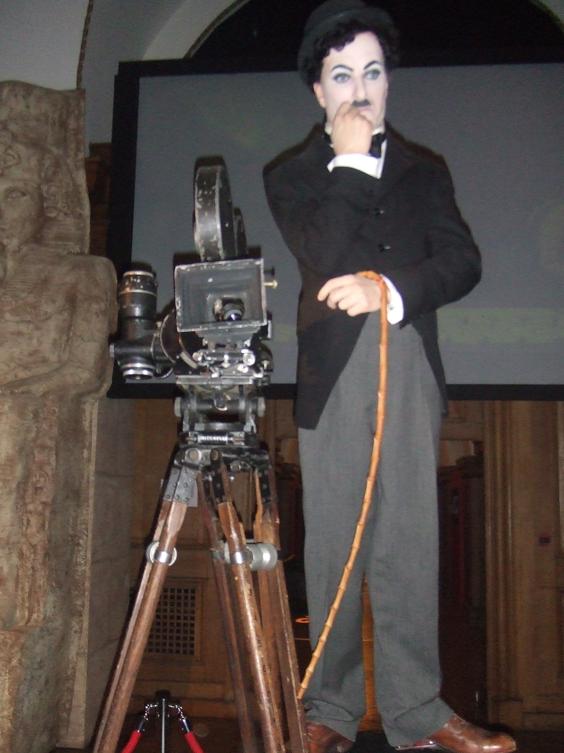 Statue of Charlie Chaplin displayed at the London Film Museum.